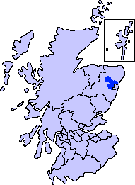 Aberdeenshire unitary council - Garioch Area